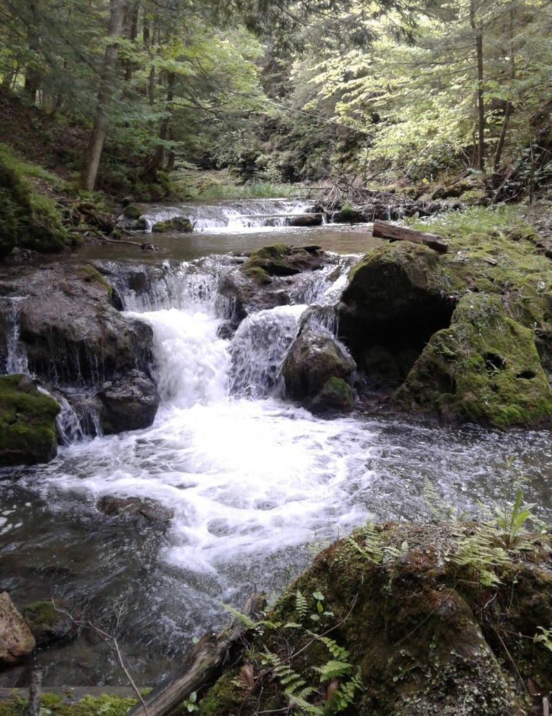 Otsquago Creek in robert b woodruff outdoor learning center, in Vanhornesville, New York. Taken 5/23/2019